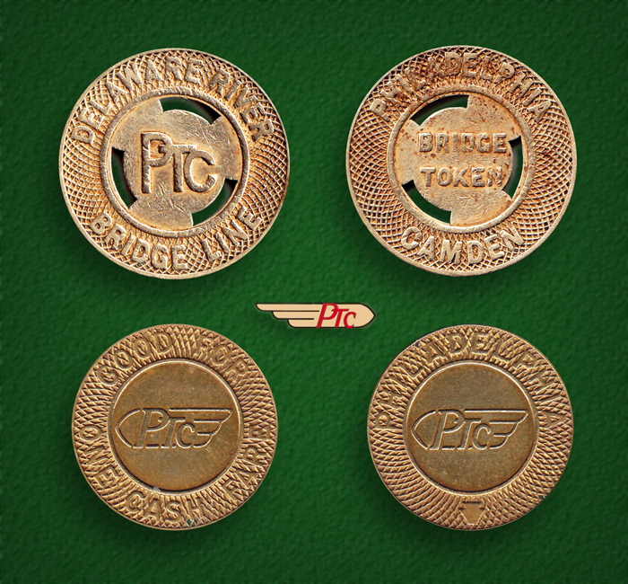 Philadelphia Transportation Company (PTC) Delaware River Bridge Line token (brass, 22mm) and "Single Fare" transit token (brass, 20mm) manufactured by the Scovill Manufacturing Company, Waterbury, Connecticut. PTC's services included bus, trolley, and trackless trolley routes, the Delaware River Bridge Line from Philadelphia, PA to City Hall, Camden, NJ (subway-elevated rail)), the Market–Frankford Line (subway-elevated rail), and Broad Street Line (subway) in the City of Philadelphia and environs from 1940-1968. Source: "The Cooper Collections" (uploader's private collection) Digital photographs and composite image created by the uploader, Centpacrr Image Tokens & logo